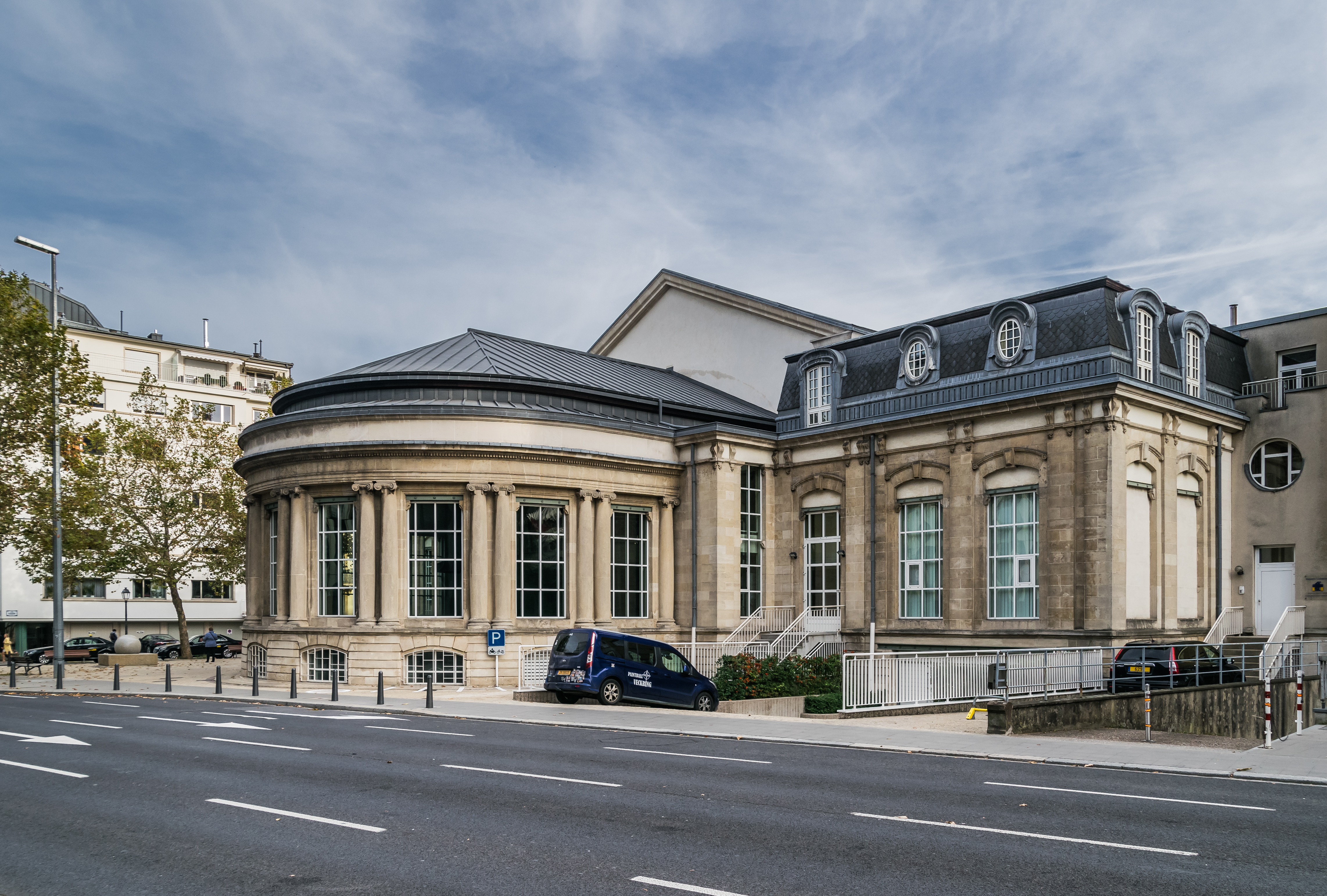 Badanstalt (view from Boulevard Royal) in Luxembourg City, Luxembourg